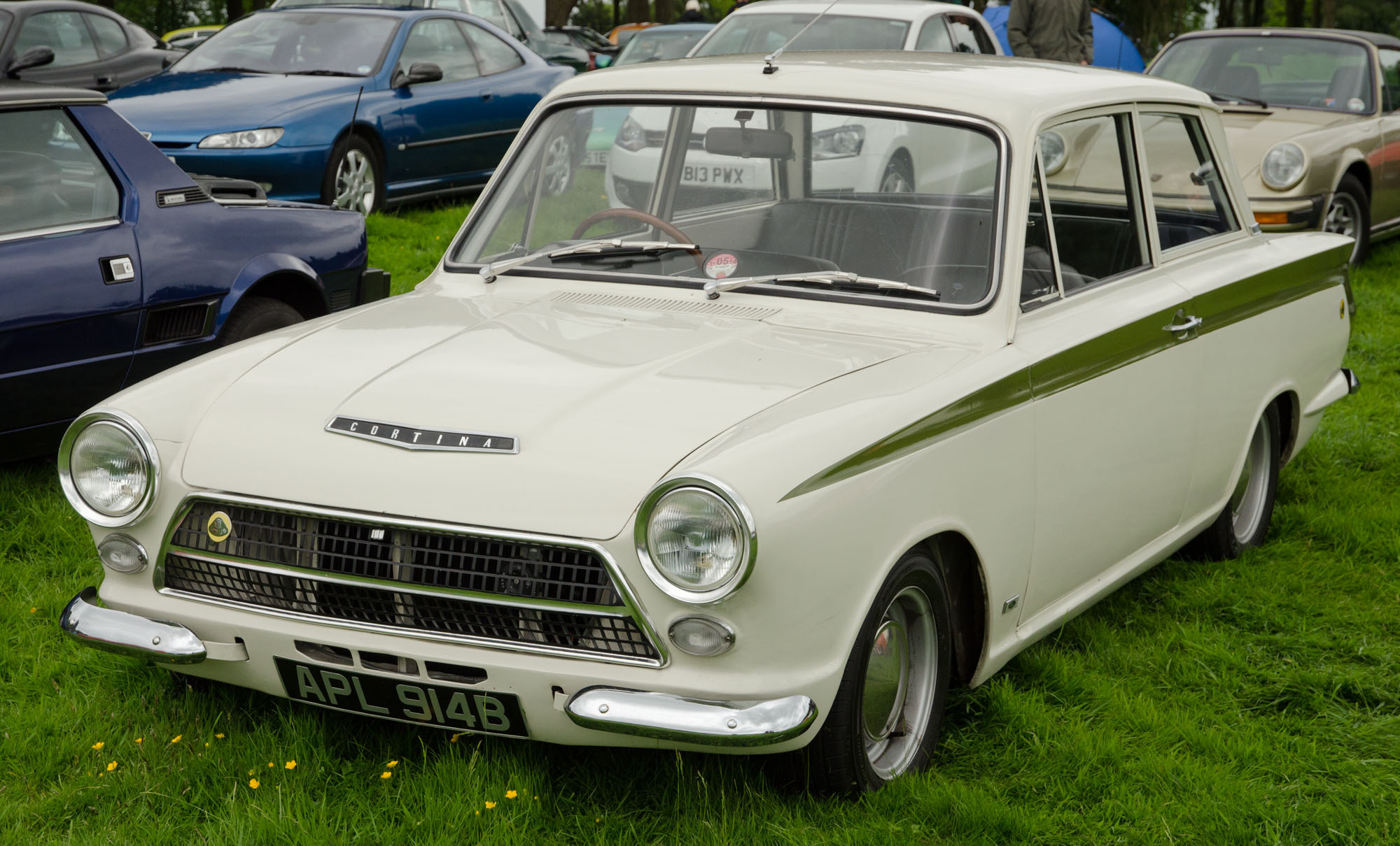 Capesthorne Hall Classic Car Show 25/05/2014